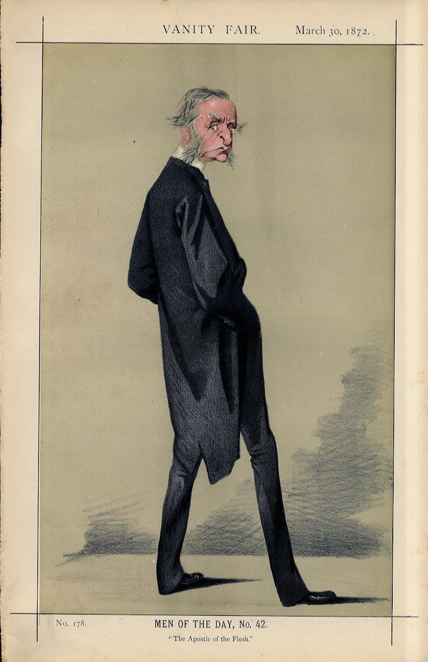 Caricature of Charles Kingsley (1819-1875). Caption read "The Apostle of the Flesh".